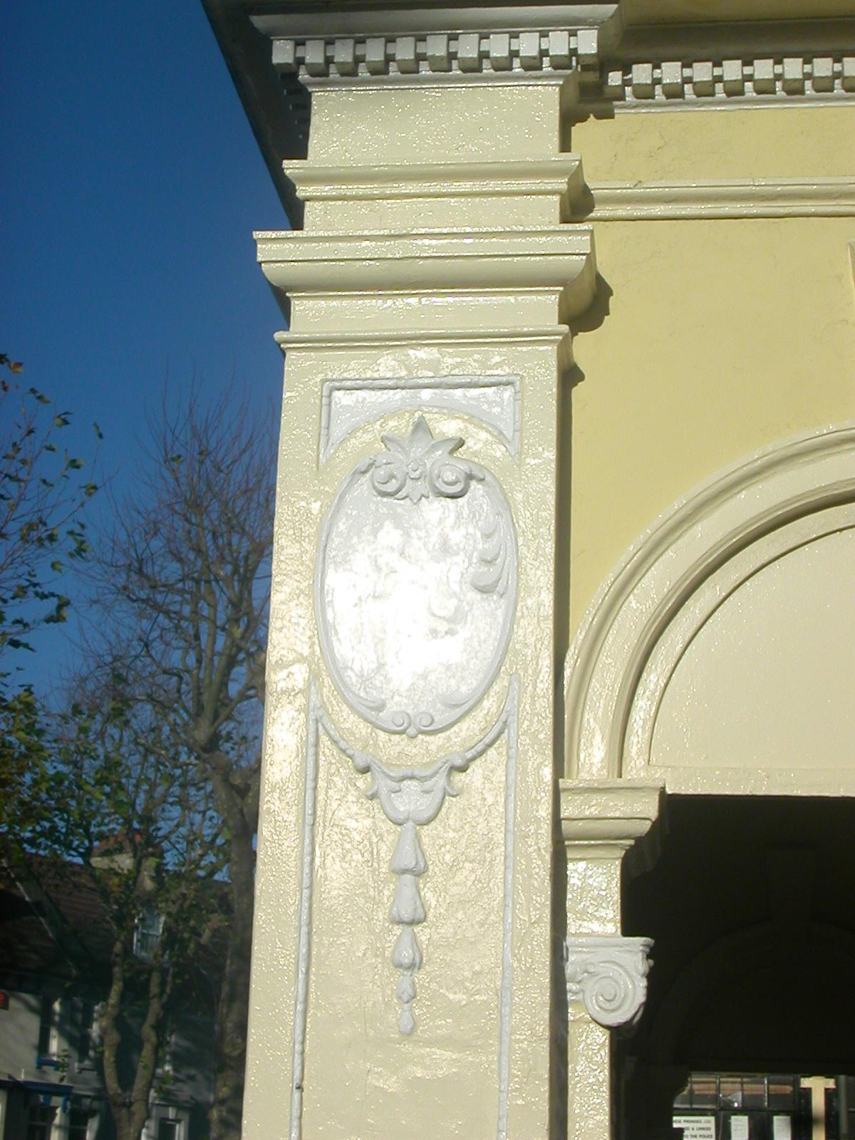 Detail from a pillar on the exterior of the Duke of York's Picture House.